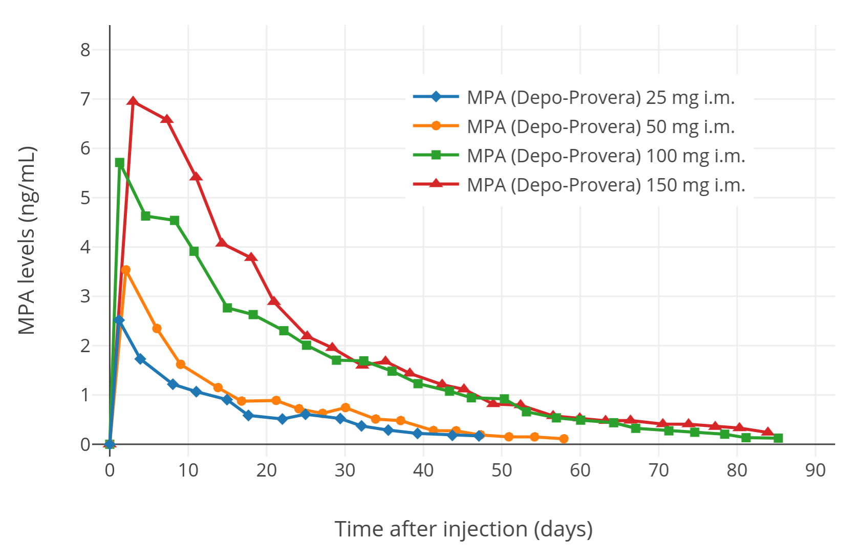 Levels of medroxyprogesterone acetate (ng/mL) after a single 25, 50, 100, or 150 mg intramuscular injection of medroxyprogesterone acetate (Depo-Provera) in five premenopausal women each (20 women total). Sources of the values: (November 1980). "Pharmacokinetic study of different doses of Depo Provera". Contraception 22 (5): 527–36. PMID 6451351. "Pharmacokinetics of Contraceptive Steroids in Humans" in Science & Business Media Contraceptive Steroids: Pharmacology and Safety, pp. 67–111 ISBN: 978-1-4613-2241-2.